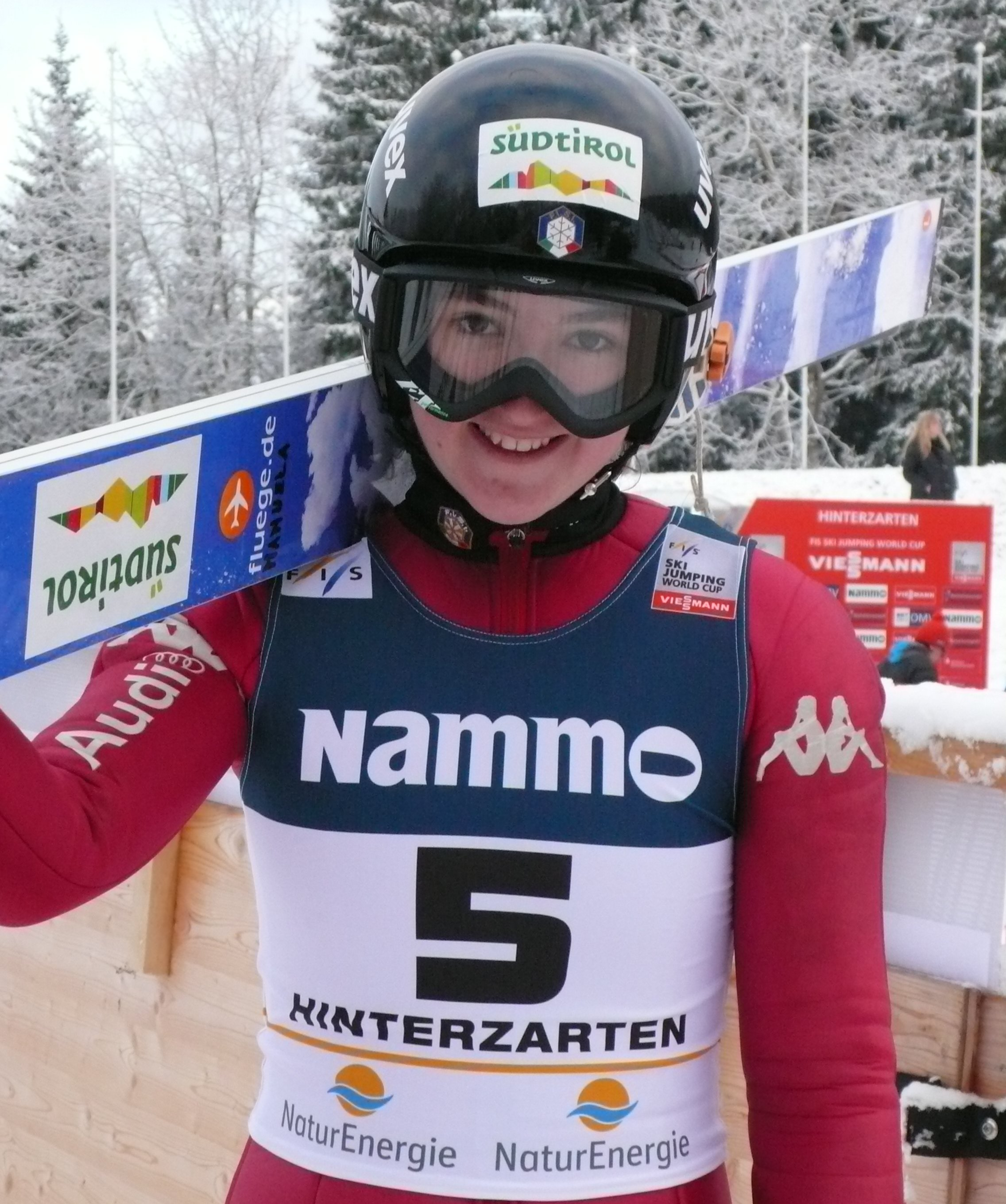 Manuela Malsiner